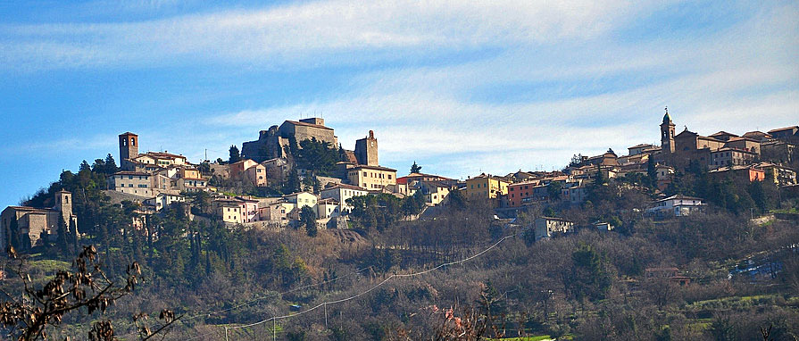 Verucchio (RN) Italy